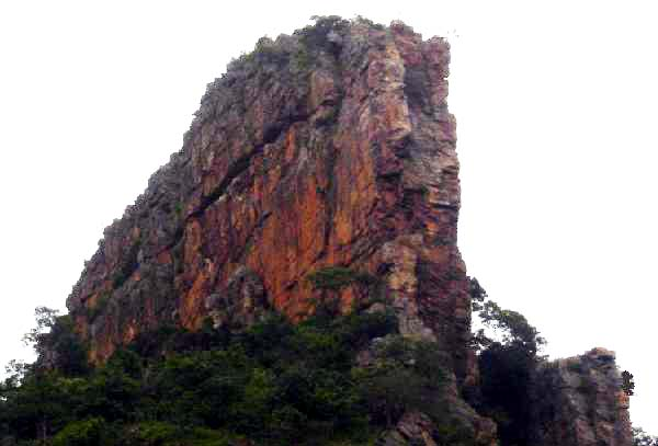 Ugra stambham rock at Ahobilam, Nallamala hills, Kurnool district